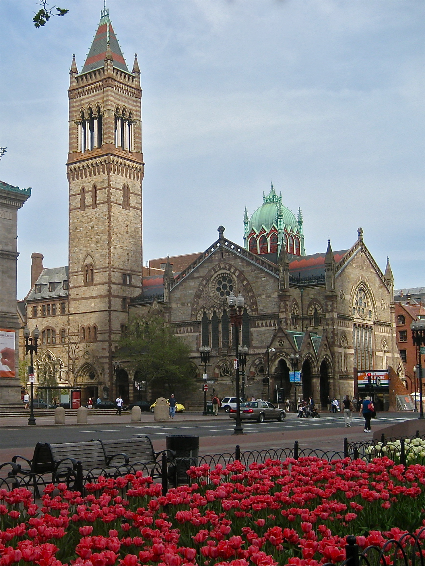 Old SOuth Church in Boston built 1873-1875 to deisgns by architects Amos Cummings and Willard T. Sears.